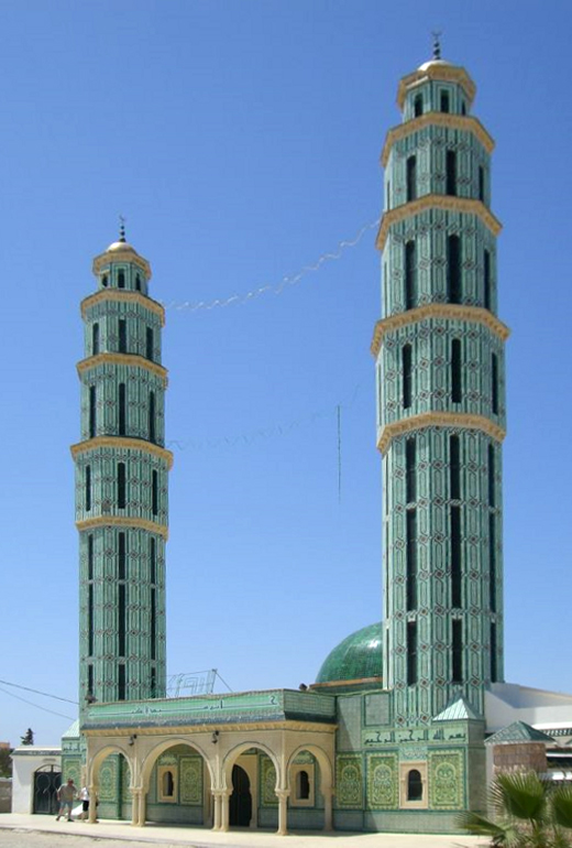 View of Zarzis / Tunisia